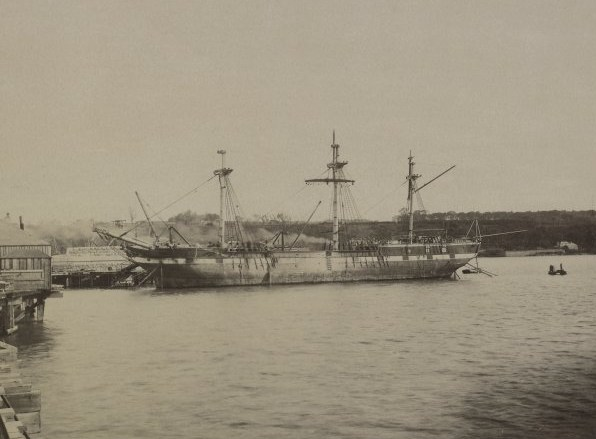 Forth Bridge Works. Ship 'Hougoumont', No.14, Canmore image DP00010259.